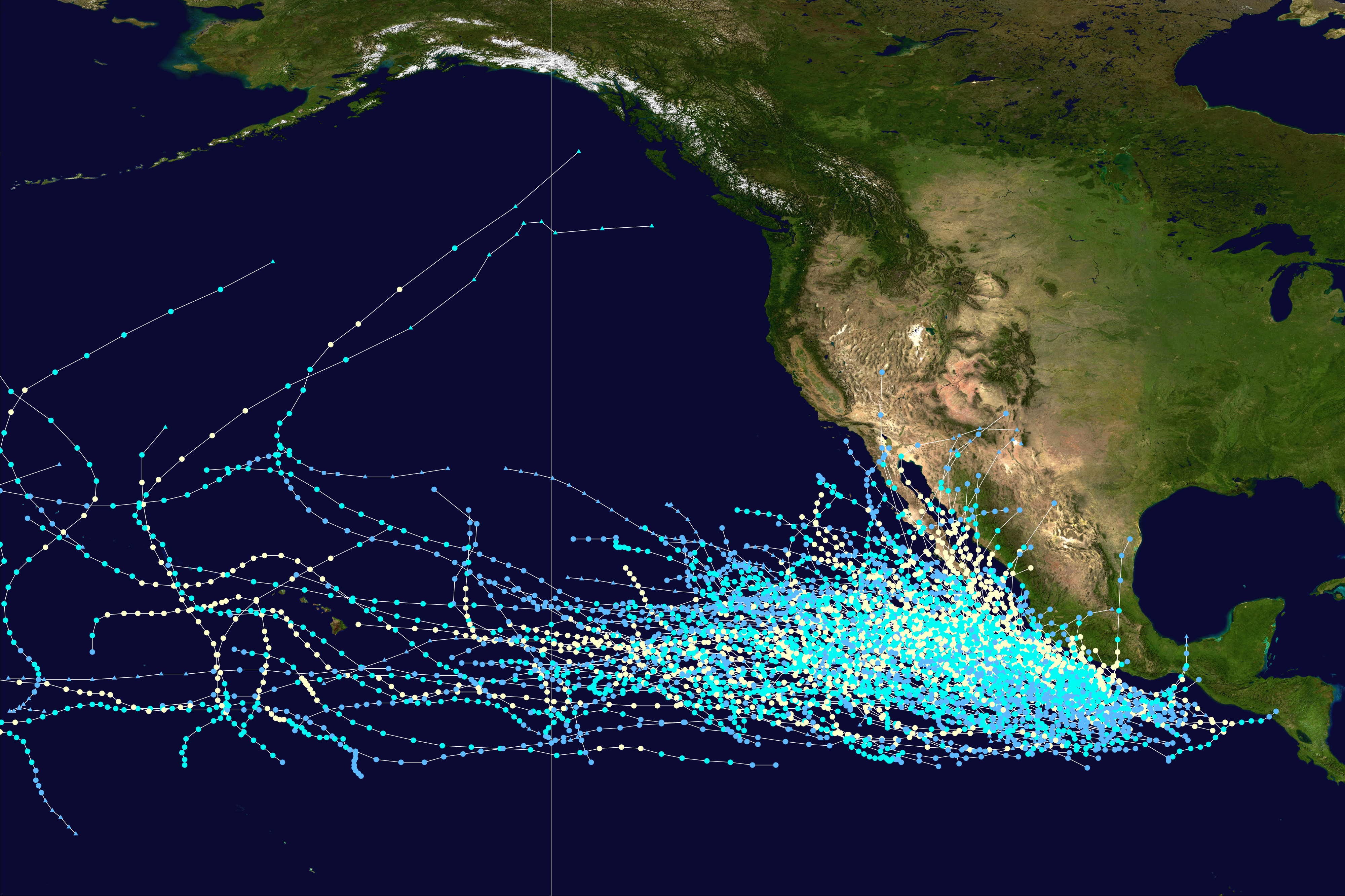 Track map of all category 1 Pacific hurricanes. The points show the location of the storm at 6-hour intervals. The colour represents the storm's maximum sustained wind speeds as classified in the Saffir-Simpson Hurricane Scale (see below), and the shape of the data points represent the nature of the storm, according to the legend below. Saffir–Simpson scale Tropical depression≤38 mph≤62 km/h Category 3111–129 mph178–208 km/h Tropical storm39–73 mph63–118 km/h Category 4130–156 mph209–251 km/h Category 174–95 mph119–153 km/h Category 5≥157 mph≥252 km/h Category 296–110 mph154–177 km/h Unknown Storm type Tropical cyclone Subtropical cyclone Extratropical cyclone / Remnant low / Tropical disturbance